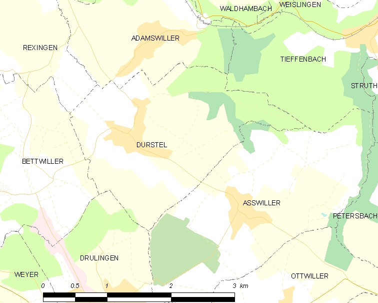 Map of French municipality